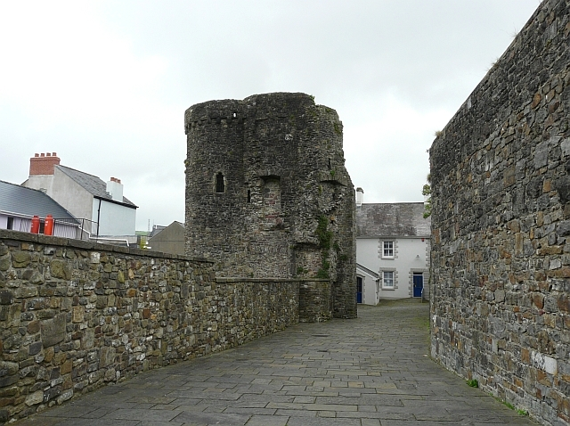 Gaol wall and Old Police Station The wall on the right encloses the car park of County Hall. It is all that remains of the County Gaol, which was demolished in the 1920s-30s. The building at the end of the walkway is the Old Police Station, which was in use from the 1880s until 1947. The gatehouse of Carmarthen Castle is on the left of the walkway.